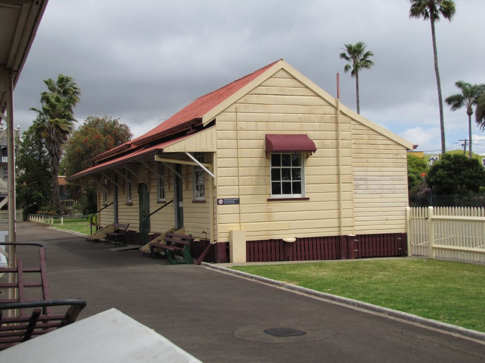 Toowoomba Railway Station - Guards and Porters huts (2012)